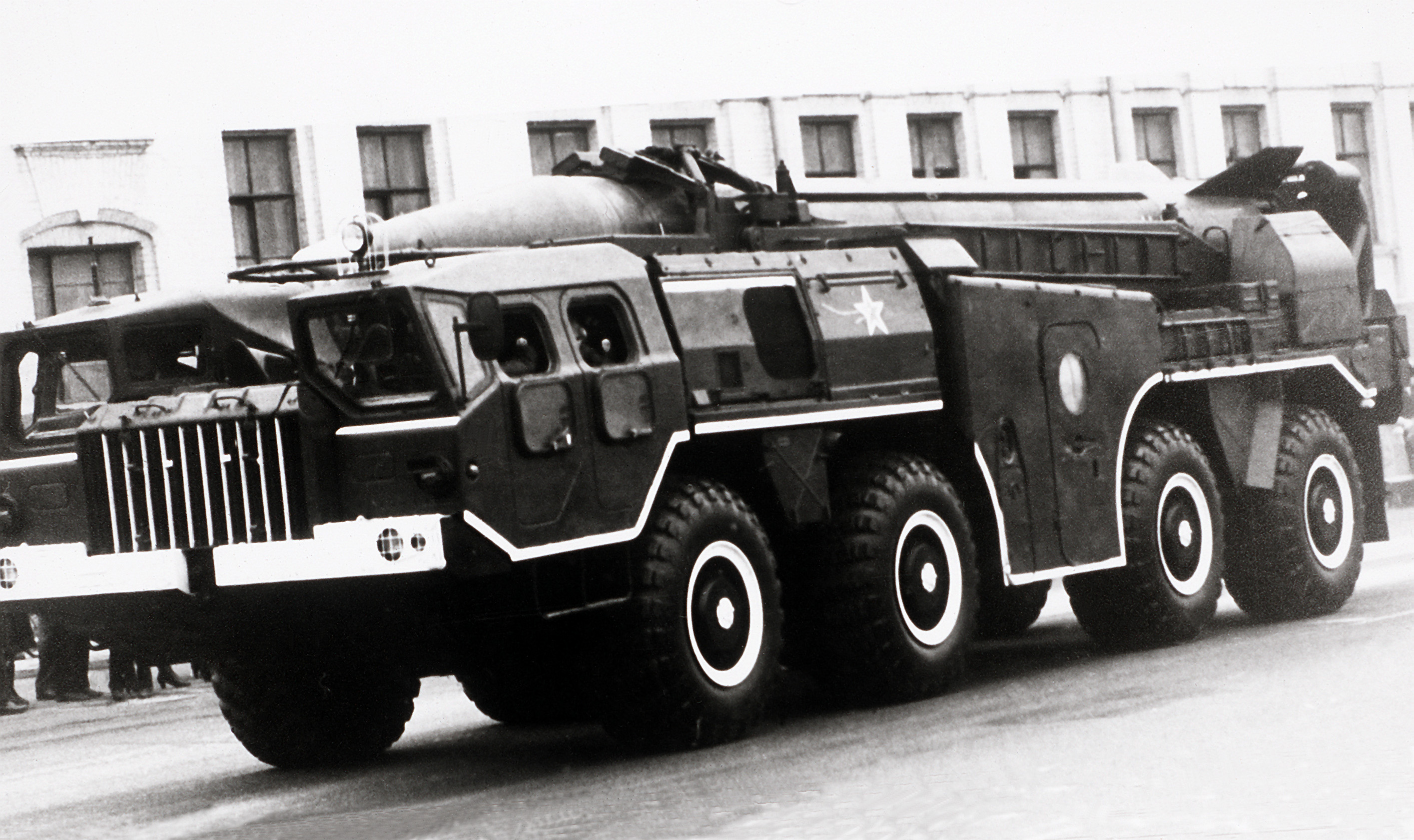 A left front view of a Soviet SS-1 (SCUD-B) battlefield support missile on a MAZ-543 launcher/erector vehicle.